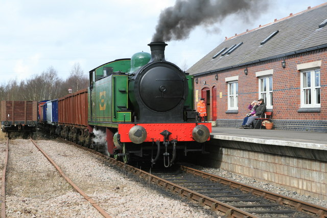 Chasewater Heaths Station - Chasewater Light Railway. Robert Stephenson & Hawthorn 0-6-0T No. 7684 of 1951 at the head of a rake of mineral wagons. The locomotive worked in the power stations at Nechells and is known as Nechells No. 4.